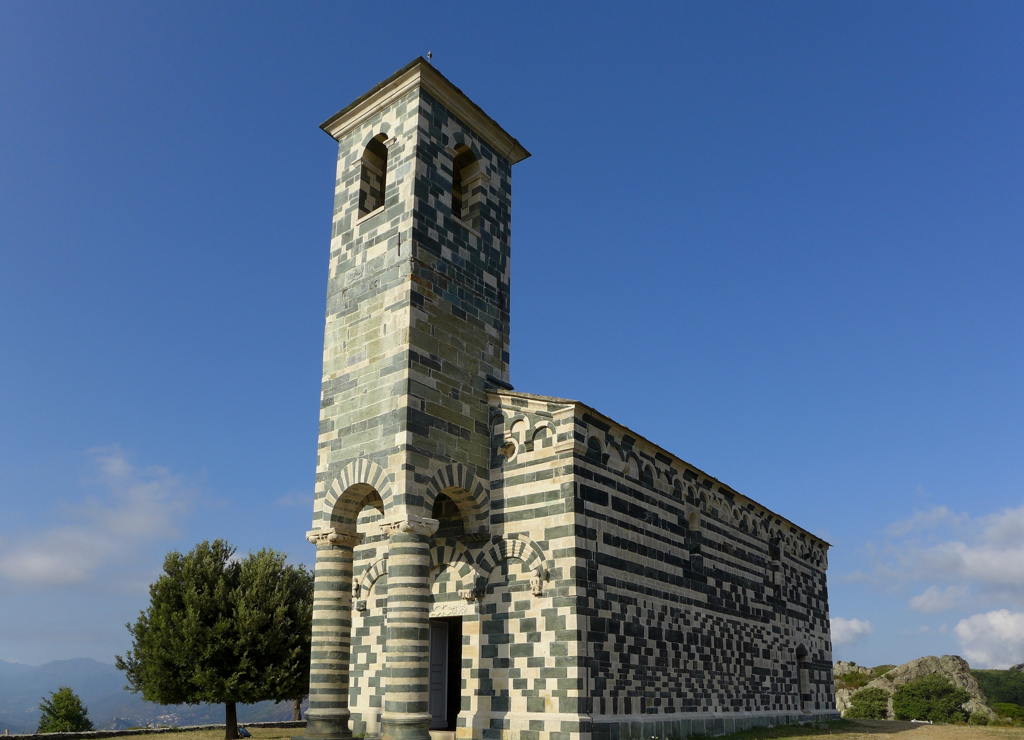 Murato (Corsica) - San Michele Church (12th century)